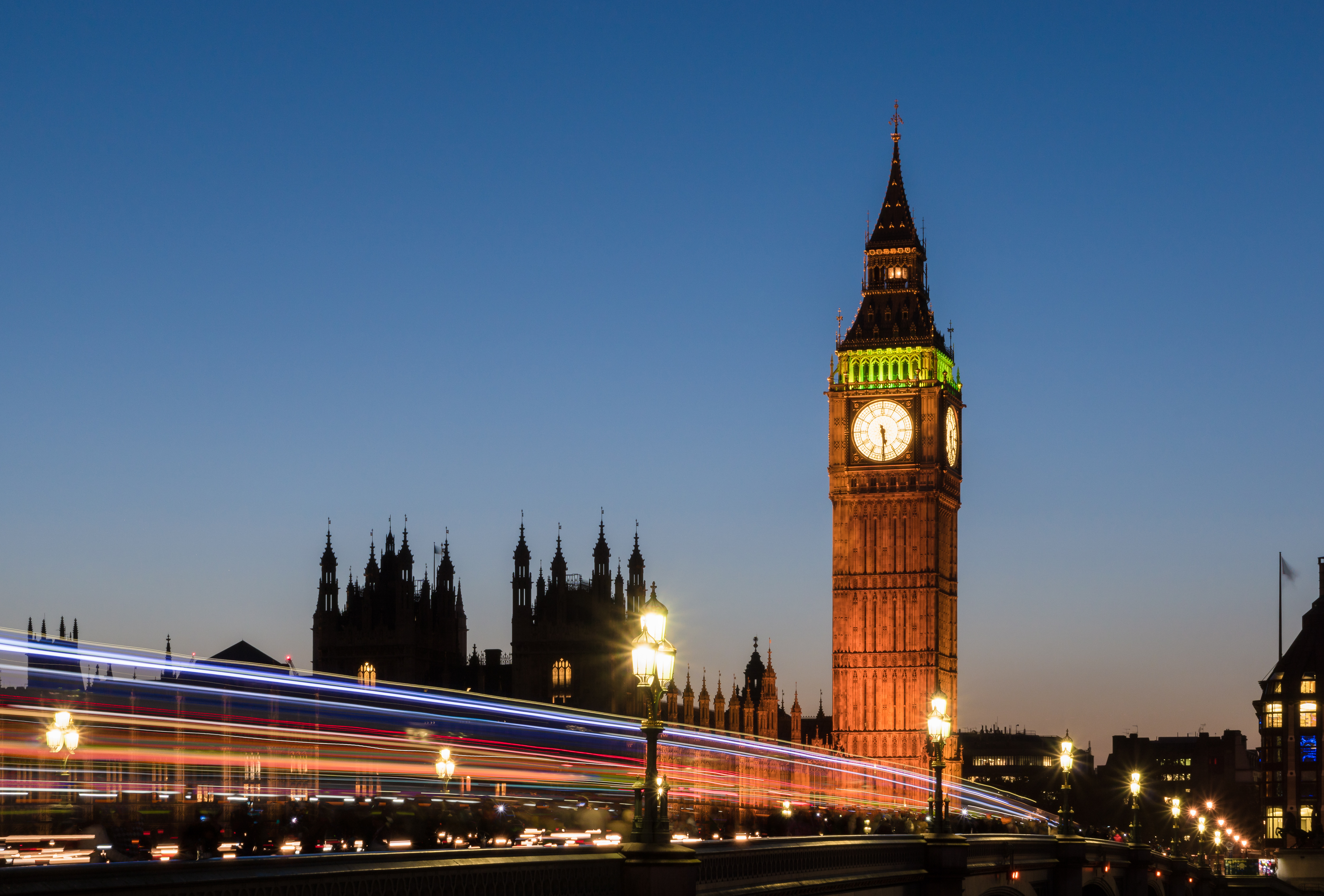 Big Ben at sunset with light trails on Westminster Bridge. Five × 13s exposures, taken over a period of five minutes, were imported as layers in Photoshop, aligned, and combined using the "Lighten" blend mode.